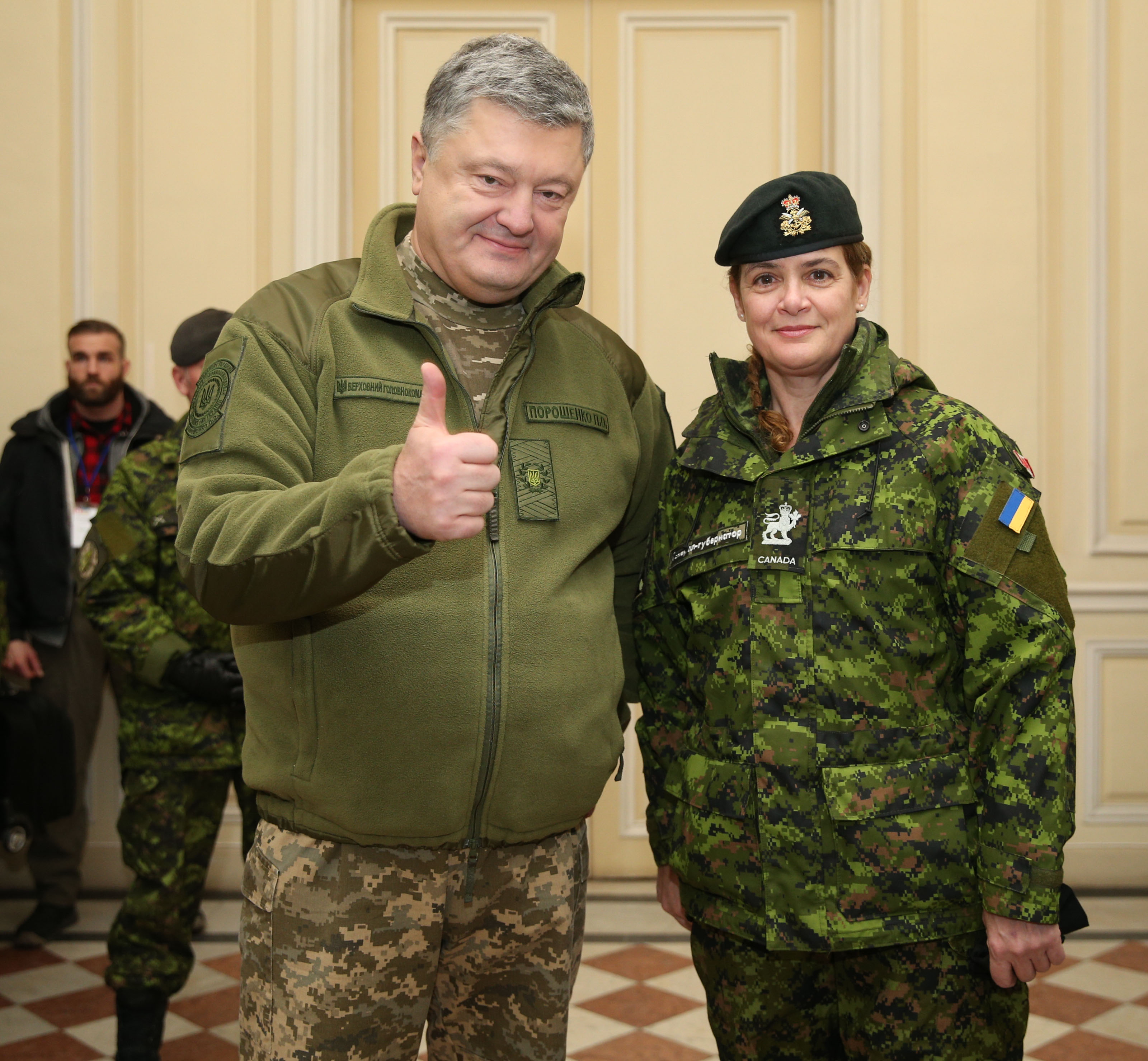 Julie Payette and Petro Poroshenko in Ukraine